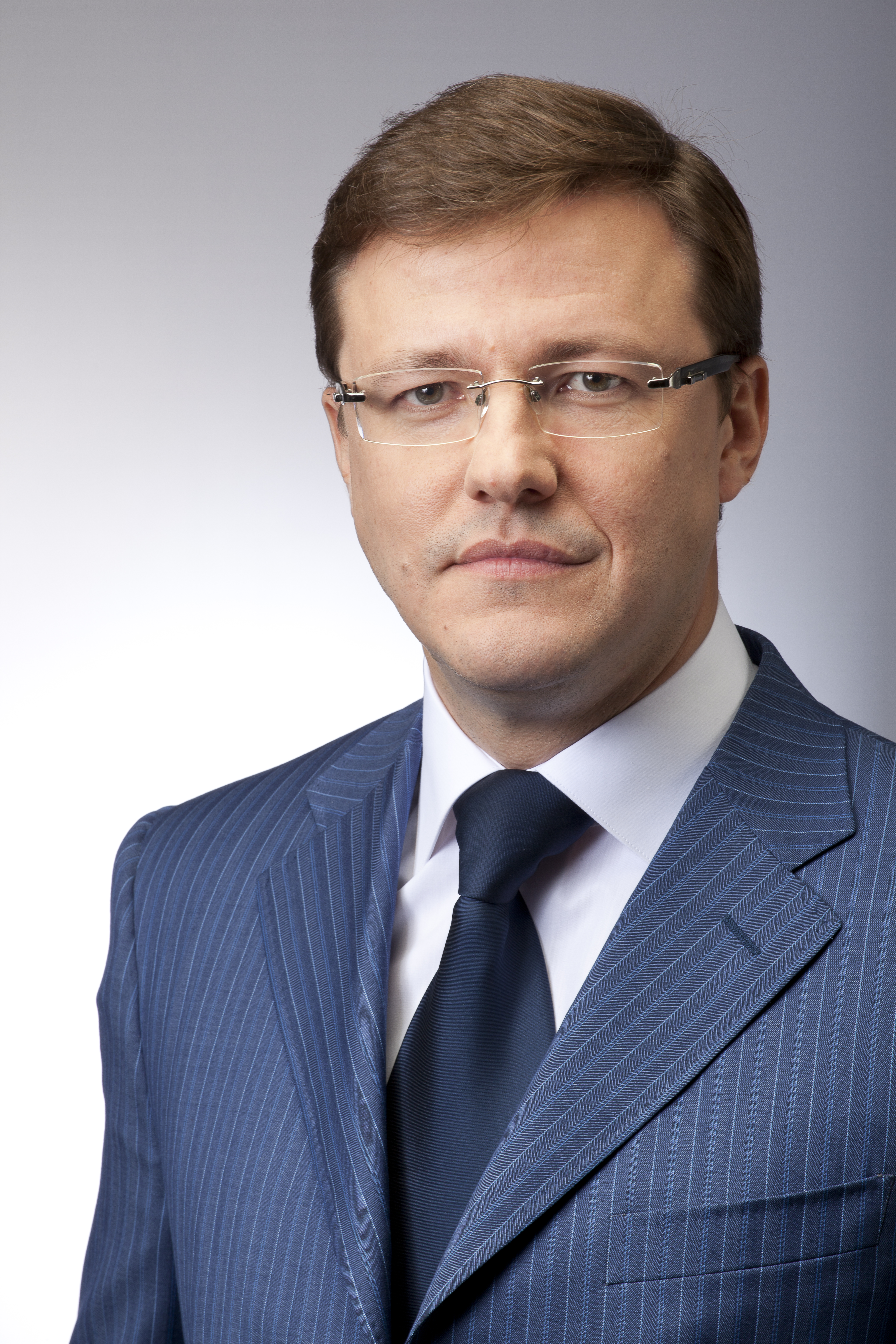 Dmitry Azarov, mayor of Samara, Russia